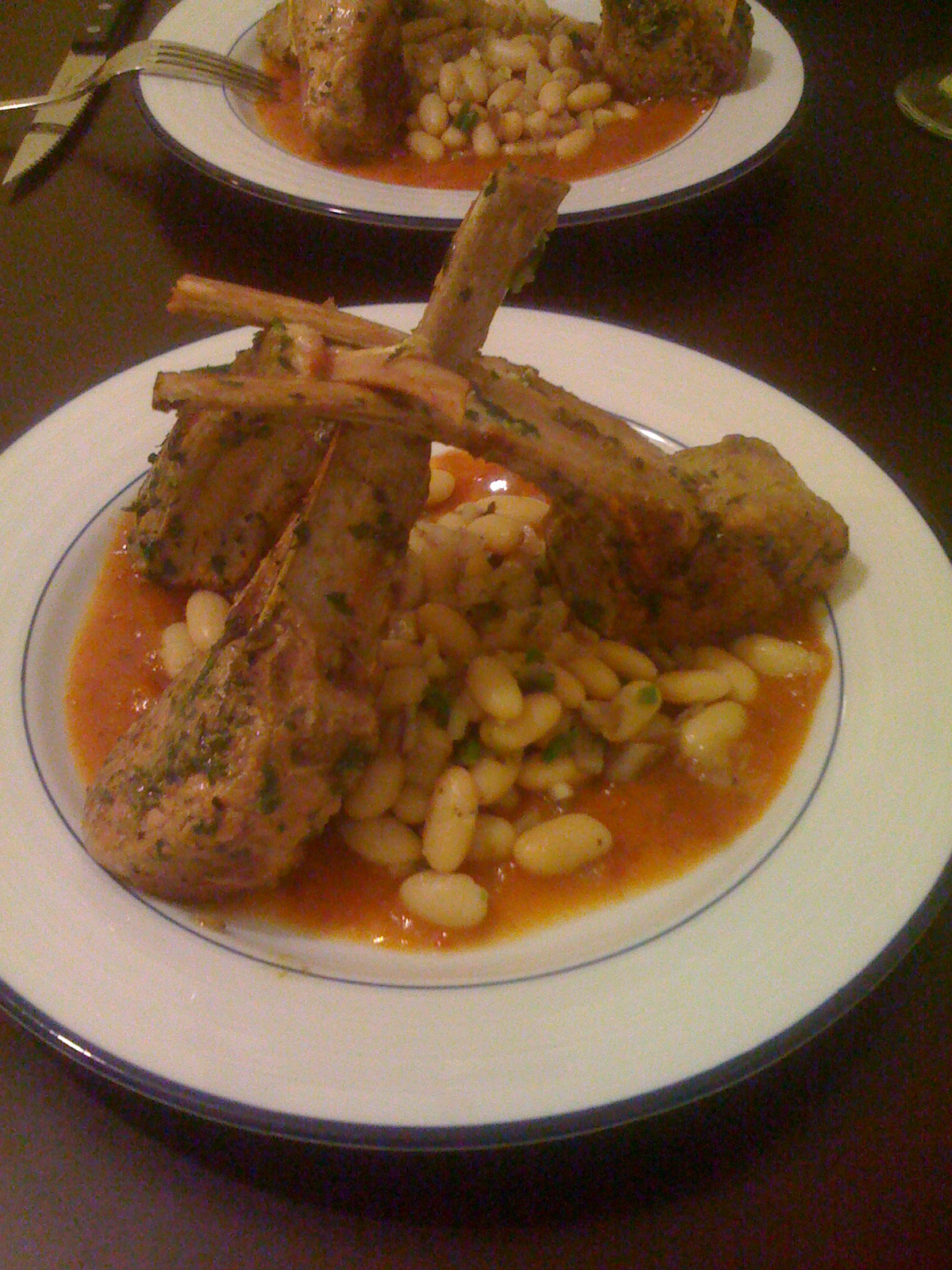 Lamb Chops With Guajillo Chili Sauce and Charro Beans. Charror bens (frijoles charros; cowboy beans) is a traditional Mexican dish. It is named after the traditional Mexican horsemen, or charro. The dish is characterized by pinto beans stewed with onion, garlic, and bacon.